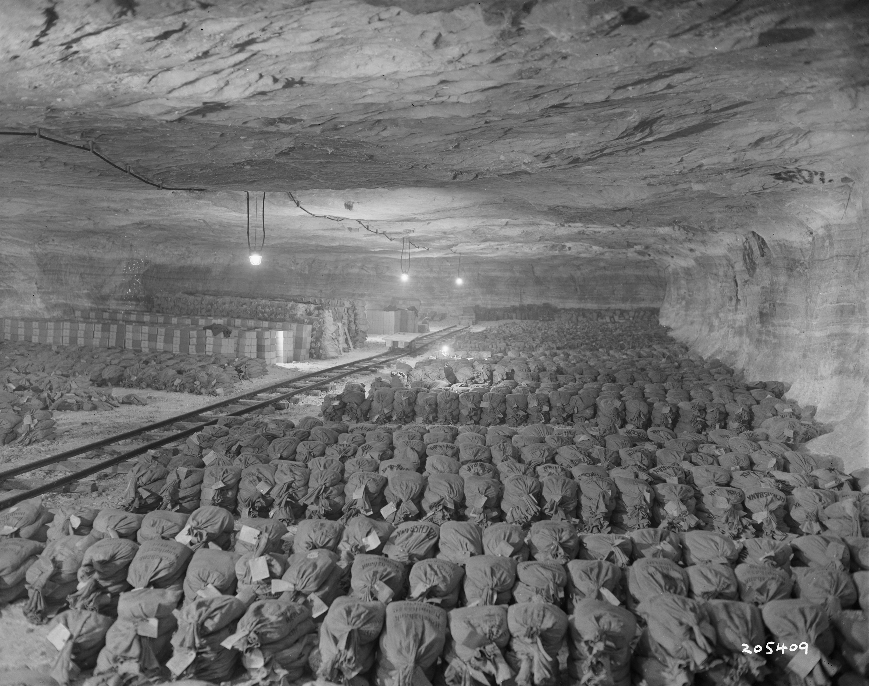 Original description: "Germany. The 90th Infantry Division (United States), discovered this Reichsbank wealth, SS loot, and Berlin museum paintings that were removed from Berlin to a salt mine vault in Merkers, Germany."